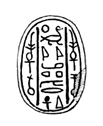 Picture of a scarab of the egyptian ruler Yaqub-Har, from the Murch Collection. Second intermediate period.